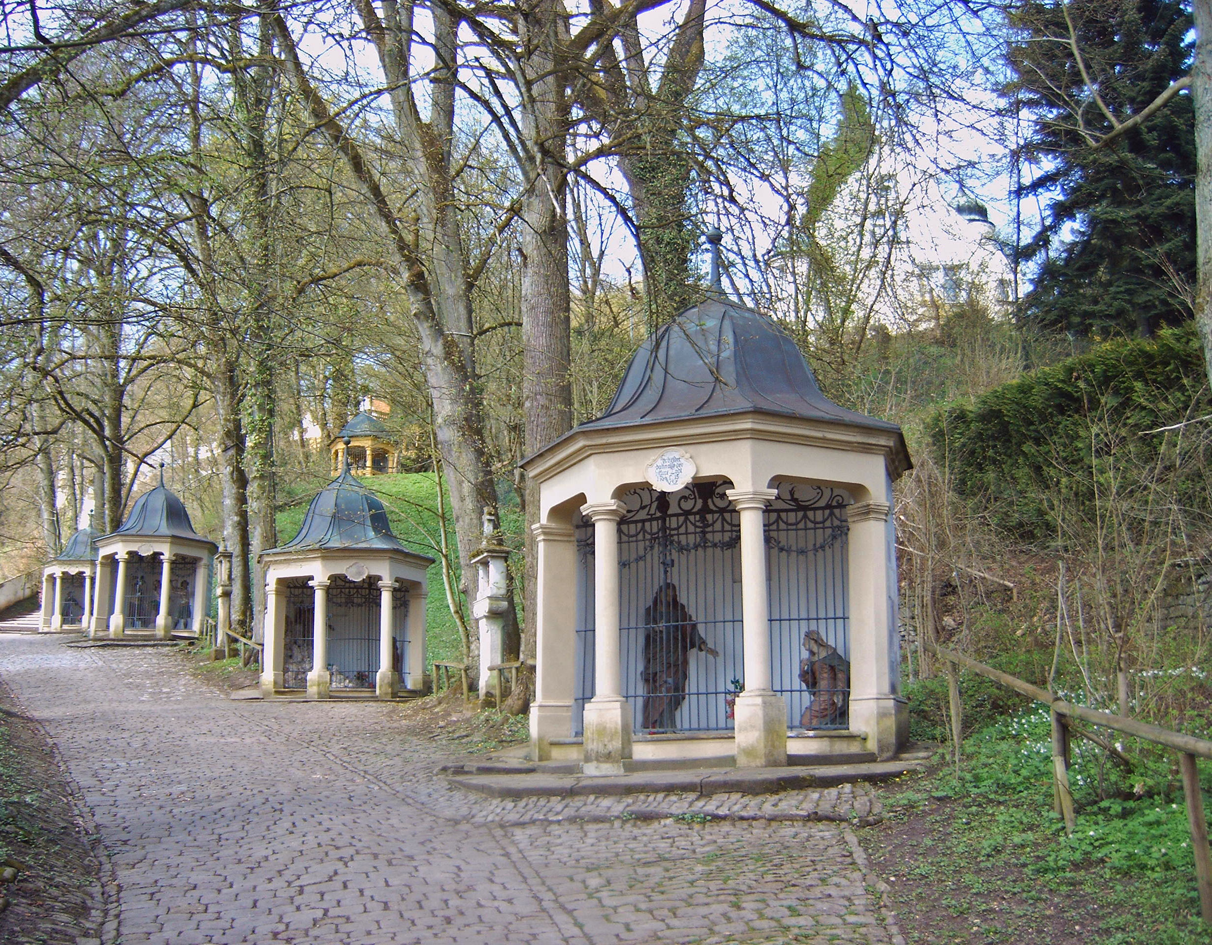 Schwäbisch Gmünd (Germany): Access to pilgrimage site St. Salvator